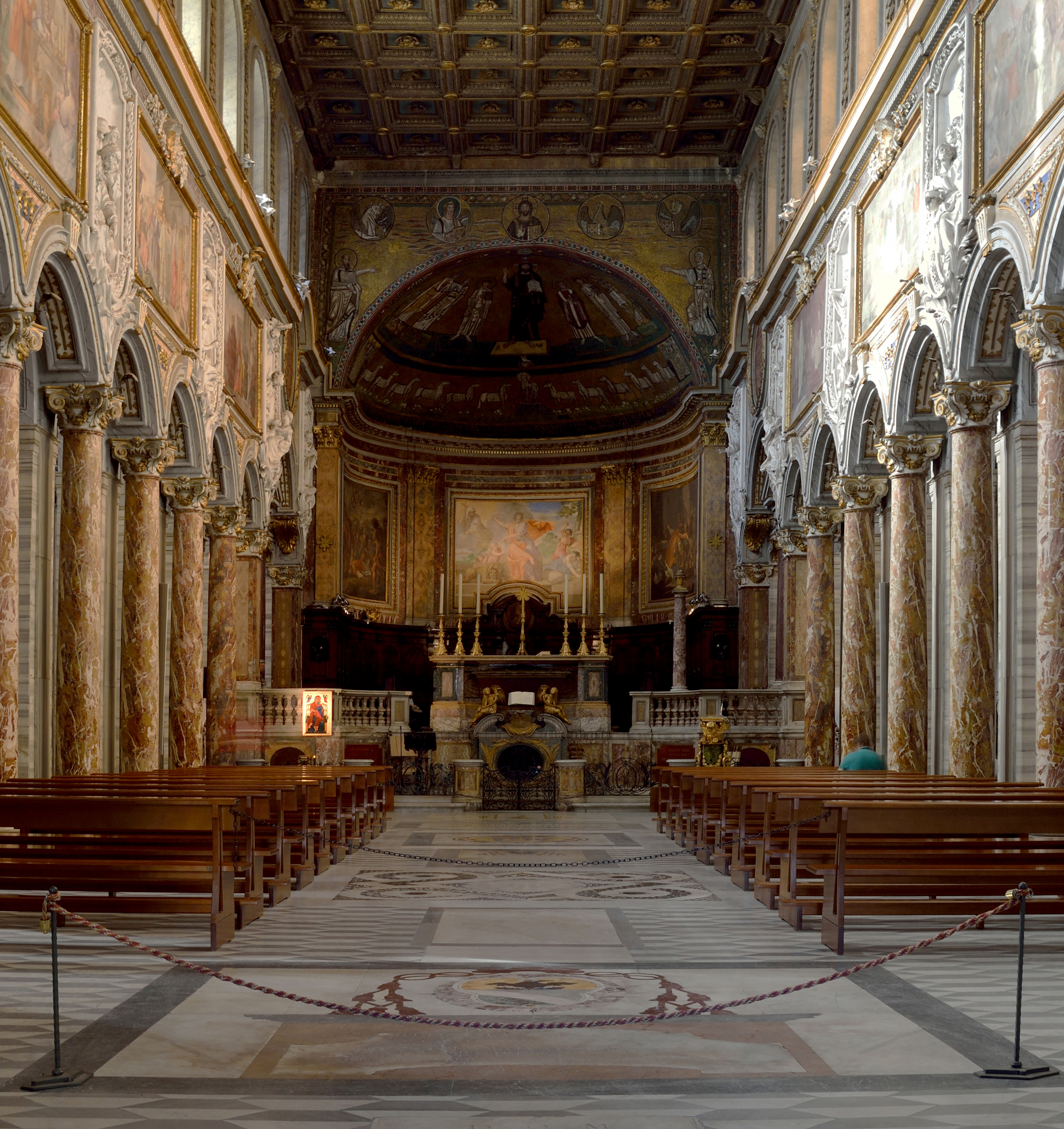 Basilica San Marco Evangelista at the Capitol